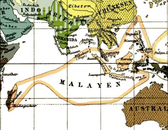 Malay race according to Meyers Konversations-Lexikon